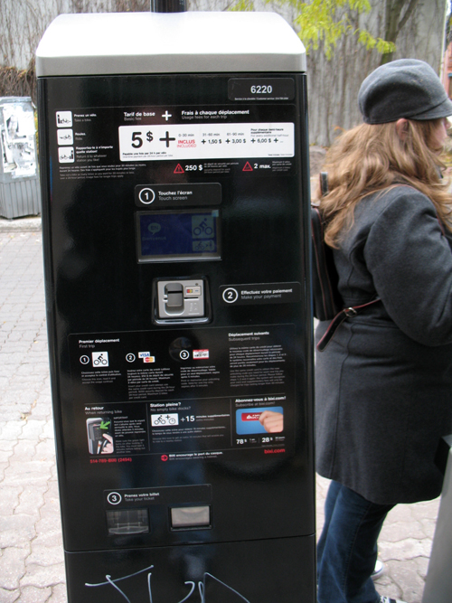 A pay station of Montreal's BIXI bicycle rental system.